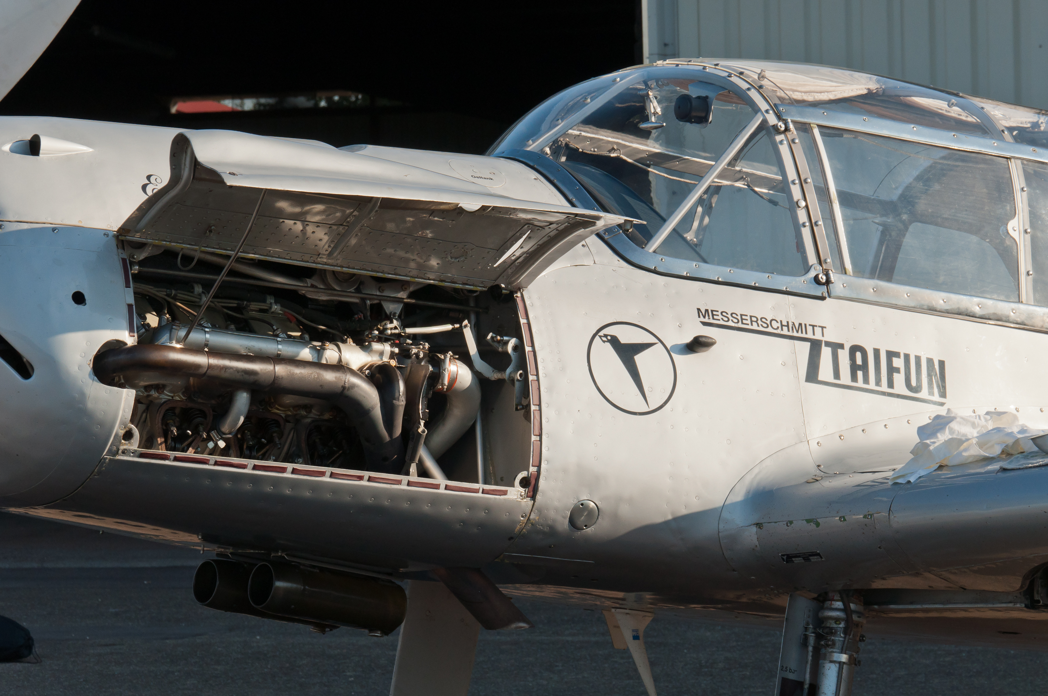 Argus As 10c engine of the Lufthansa (Berlin-Stiftung) Messerschmitt Bf-108B-1 Taifun (reg. D-EBEI, cn 2246, built in 1940 ).